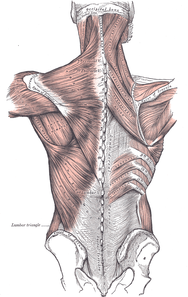 Muscles connecting the upper extremity to the vertebral column.